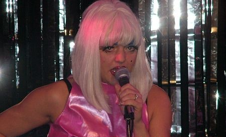 Lady Sian @ The Lavender Club (Unity Theatre), during Liverpool's 2004 Homotopia festival (Wednesday, 10 November 2004).